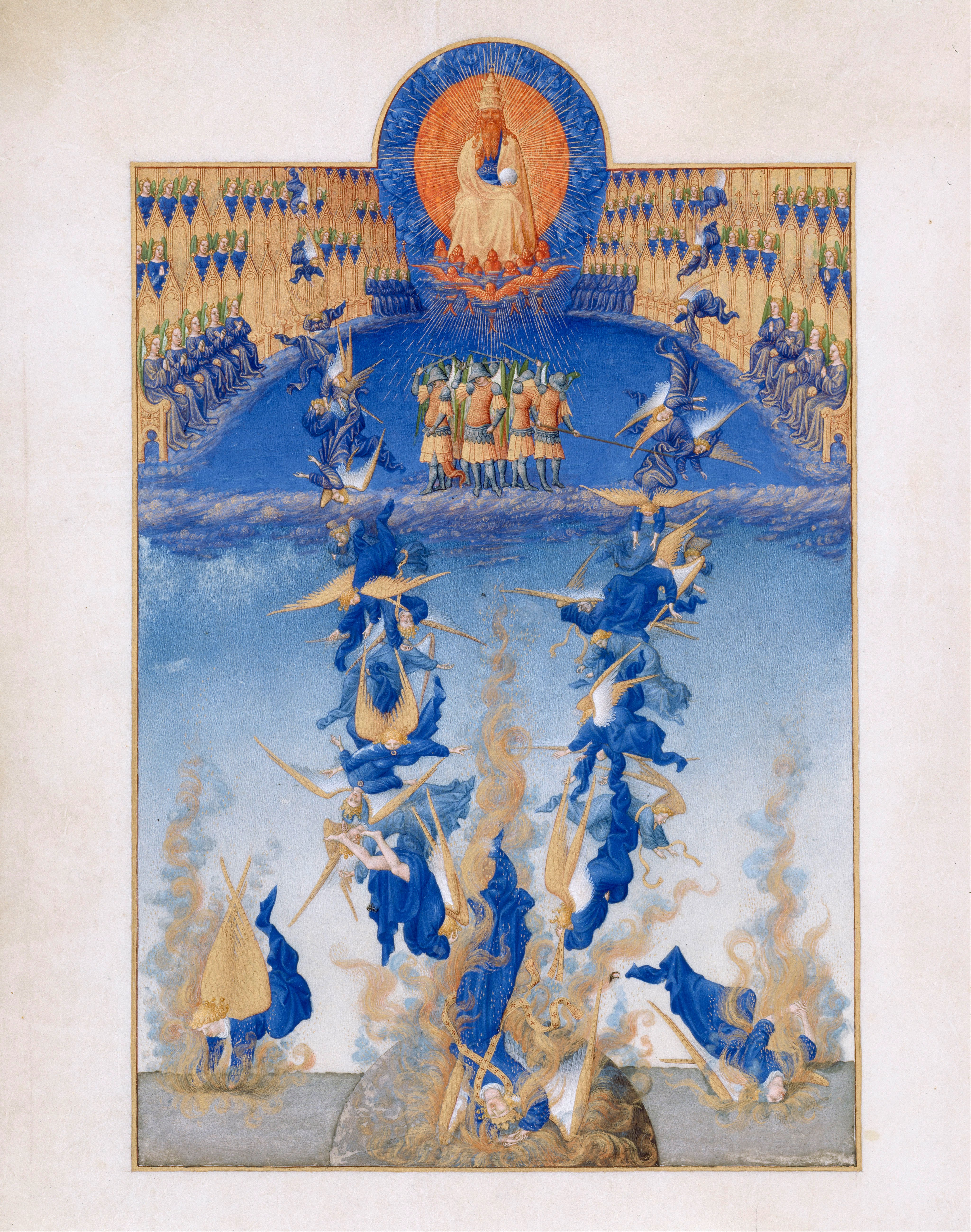 This picture shows God sitting on his throne surrounded by Seraphs and all of the disrespectful Angels out of thier regular order of ranks out of Heaven and into the firery chaos of Hell. Michael and his angels (depicted as kinghts) fight off the fallen Angels. Satan is shown as the first to fall in.